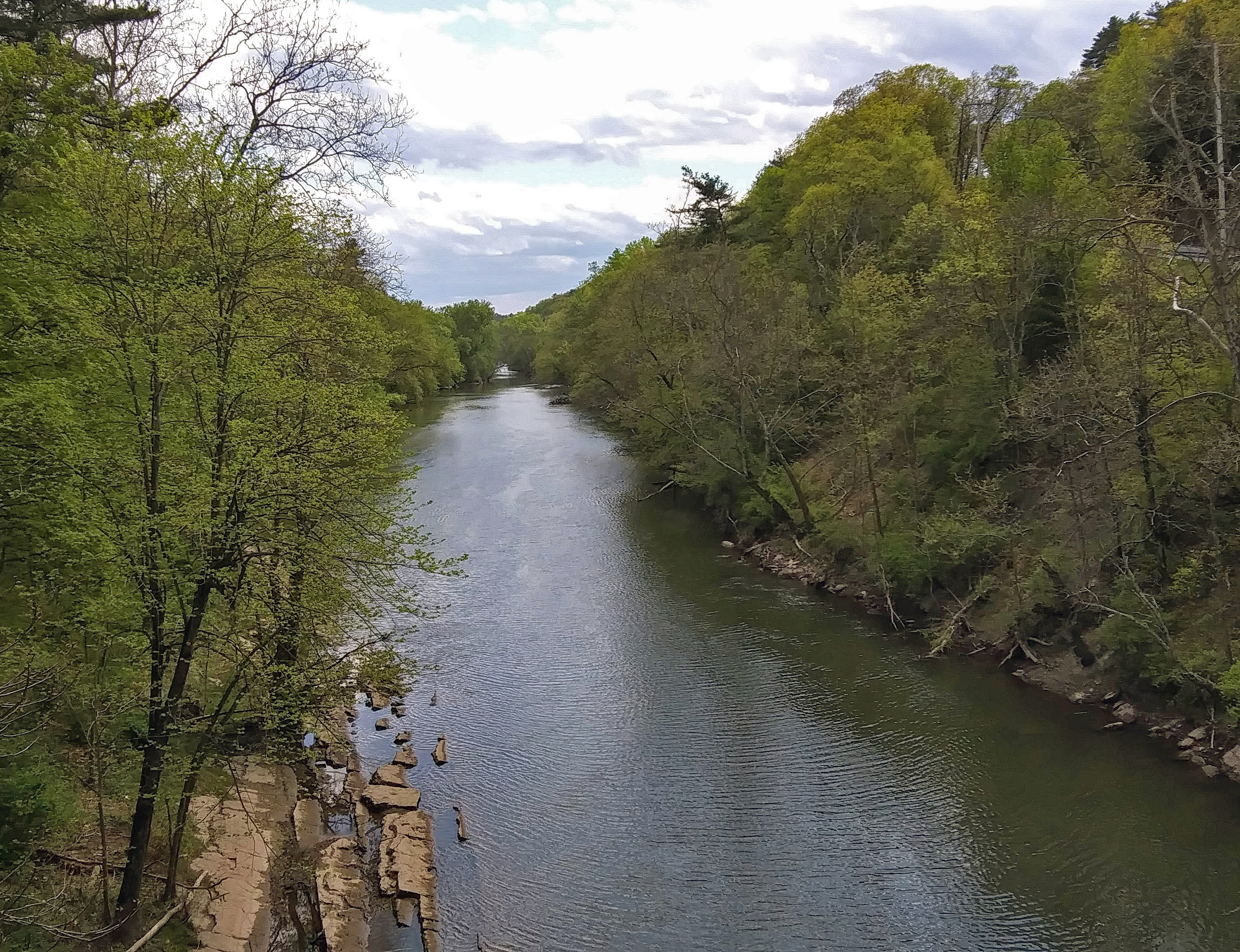 The Esopus Creek seen from the Glasco Turnpike (Ulster County Route 32) bridge in the town of Saugerties, NY, USA